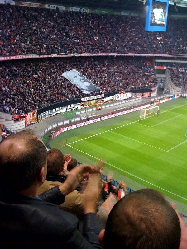 F-Side Ajax tributes to Sjaak Wolfs in the match against PSV 16-11-2008